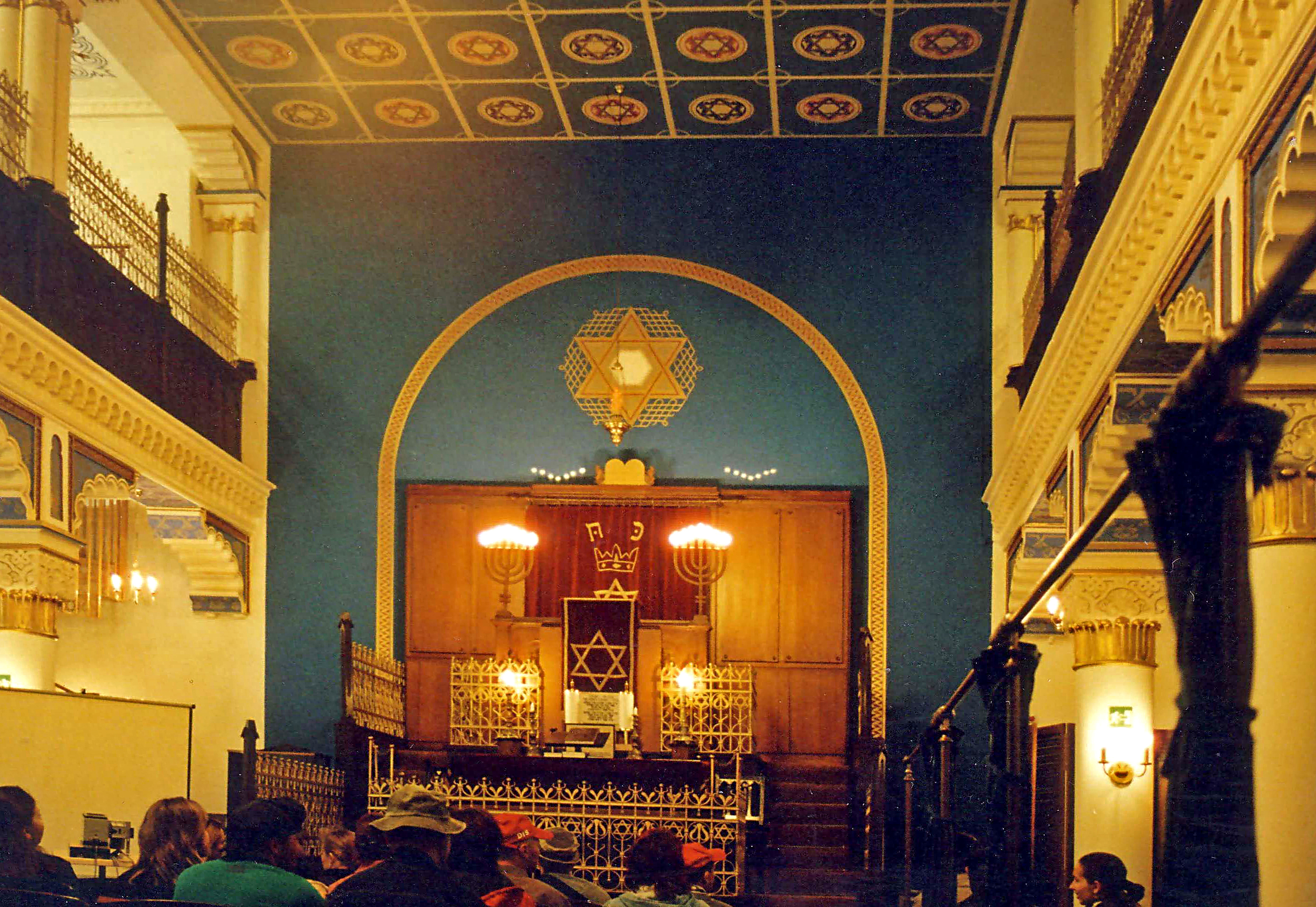 Only surviving synagogue in Leipzig, Keilstrasse 4 (Center-North)